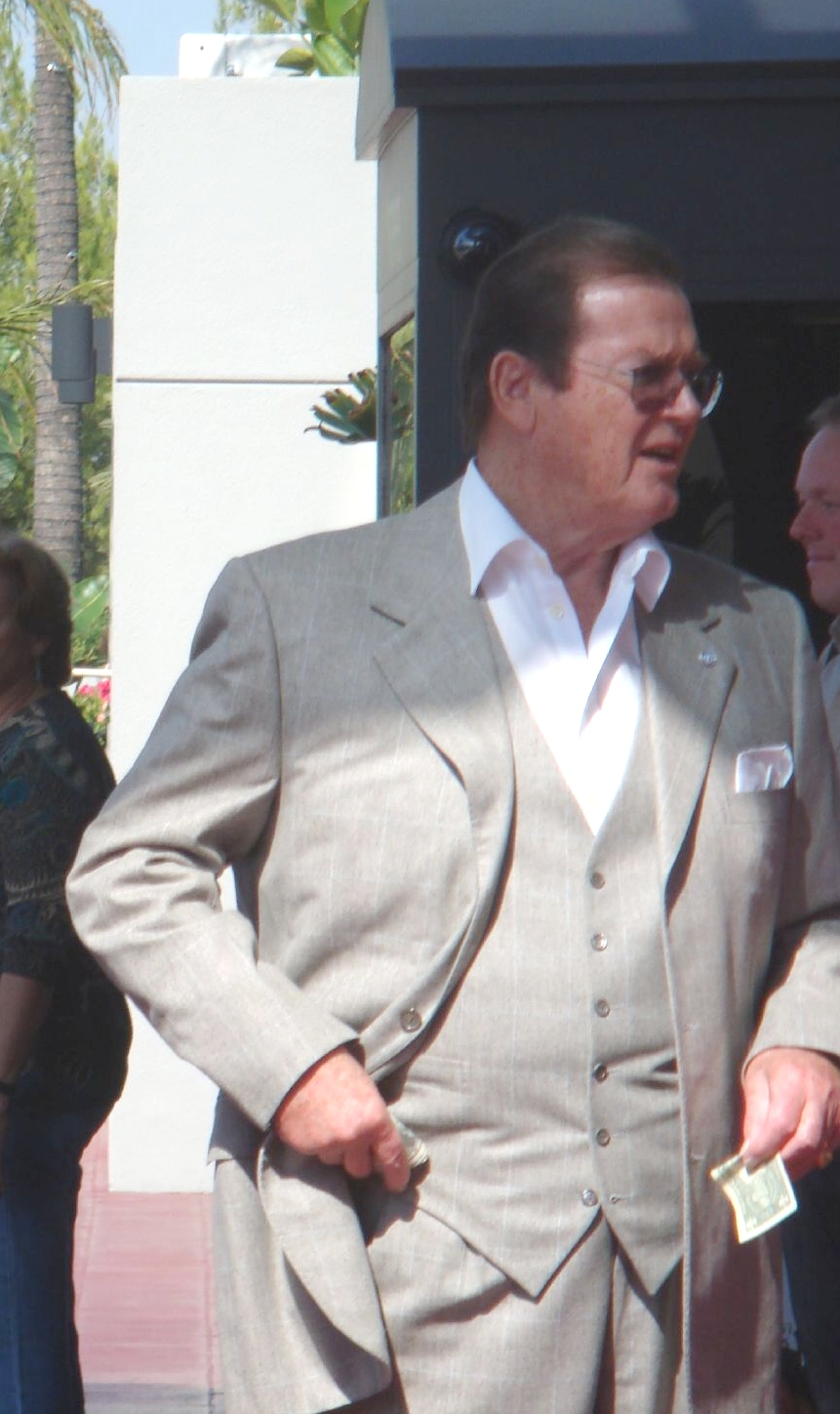 Roger Moore in the United States, 2007. Cropped from the original.